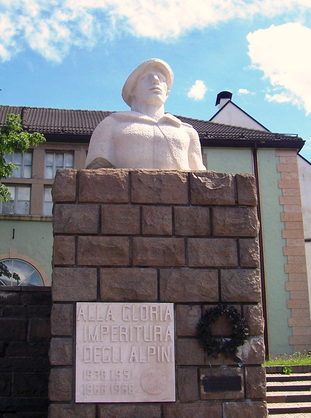 Alpini Monument in Brunico/Bruneck (South Tyrol)